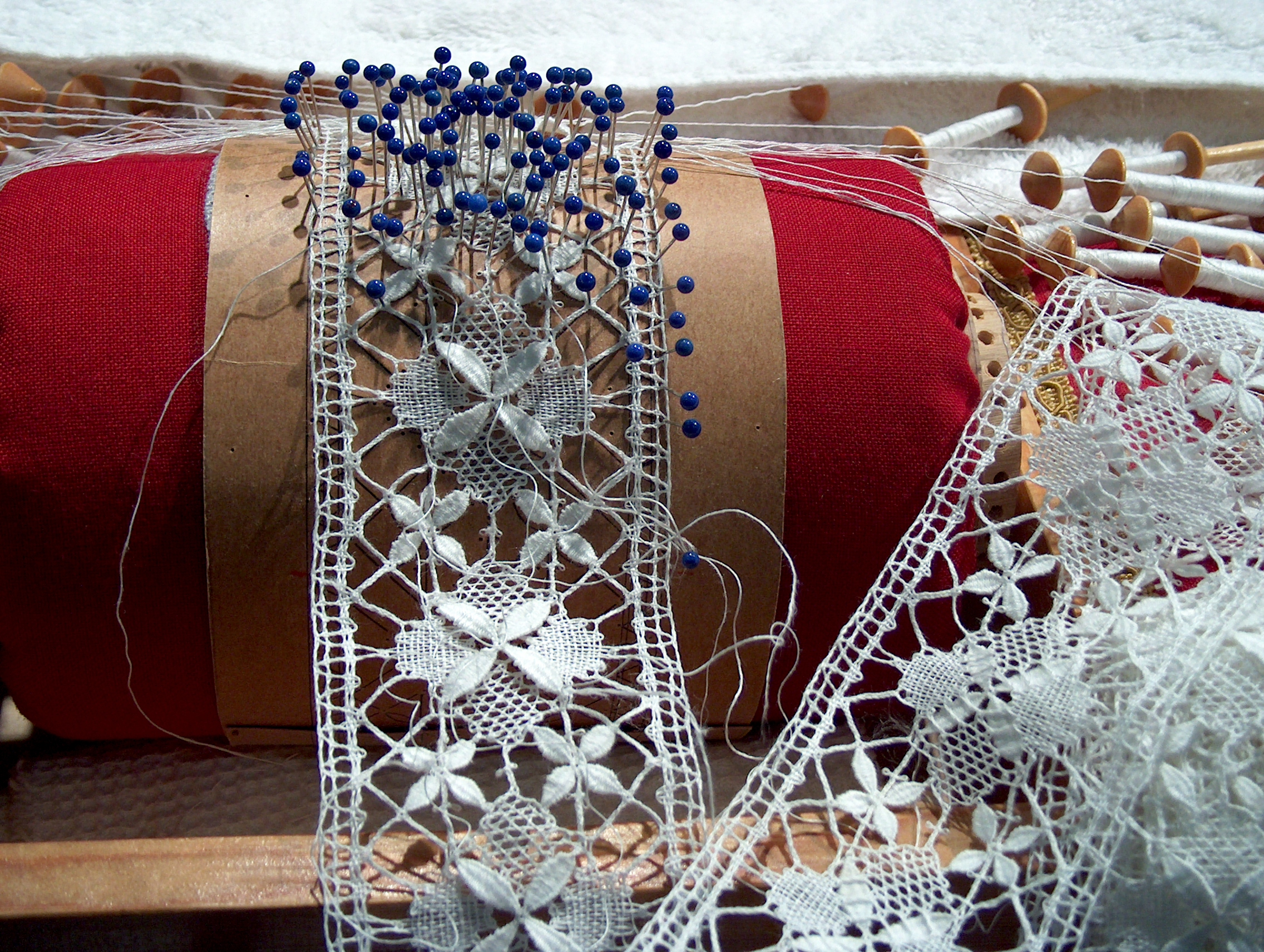 Finnish bobbin lace at Helsinki Travel Fair 2005